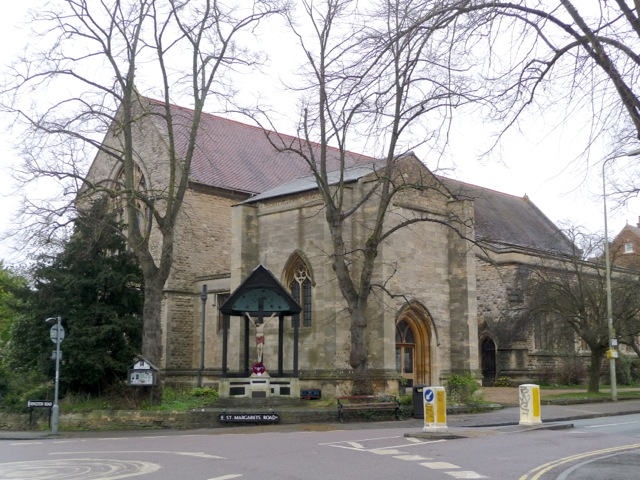 View of St Margaret's Church, North Oxford, England, on the corner of St Margaret's Road and Kingston Road, from the southwest.